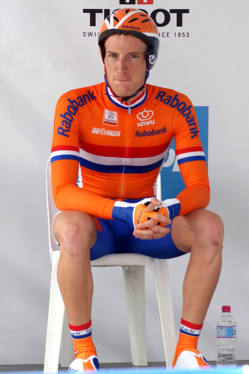 Jos van Emden at 2010 UCI Road Cycling World Championships in Geelong, Australia